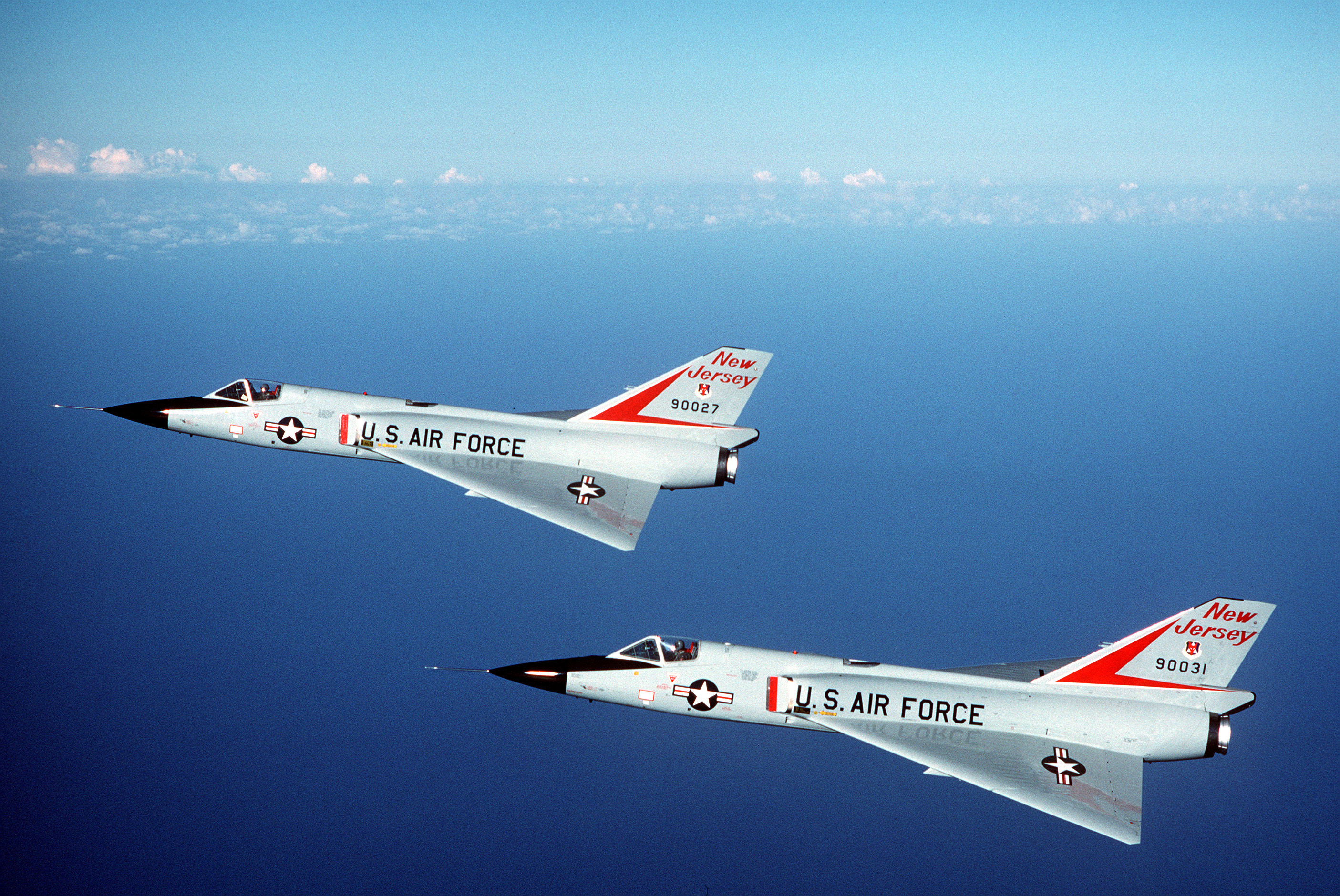 Two U.S. Air Force Convair F-106A-105-CO Delta Dart aircraft (s/n 59-0027, 59-0031) from the 119th Fighter Interceptor Squadron, 177th Fighter Interceptor Group, New Jersey Air National Guard, during the air-to-air weapons meet "William Tell '84" in October 1984.